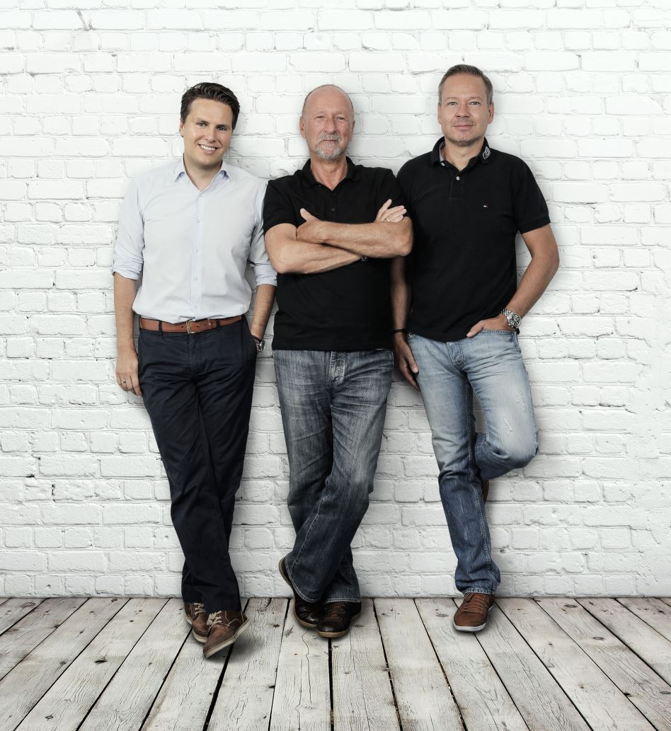 A.Pietschmann; D. Kirby, M. Jahnel